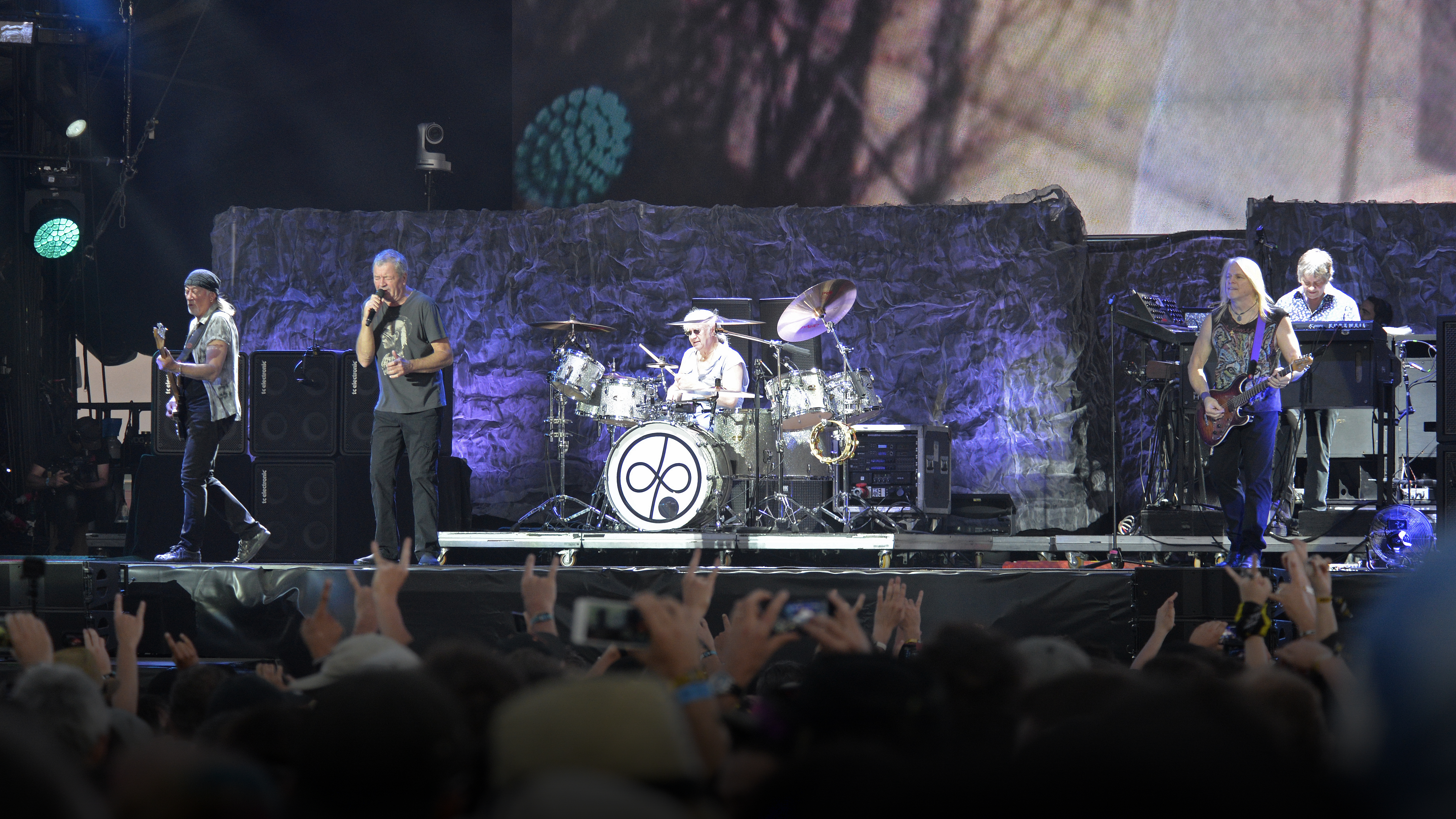 Deep Purple at 2017 Hellfest, France.